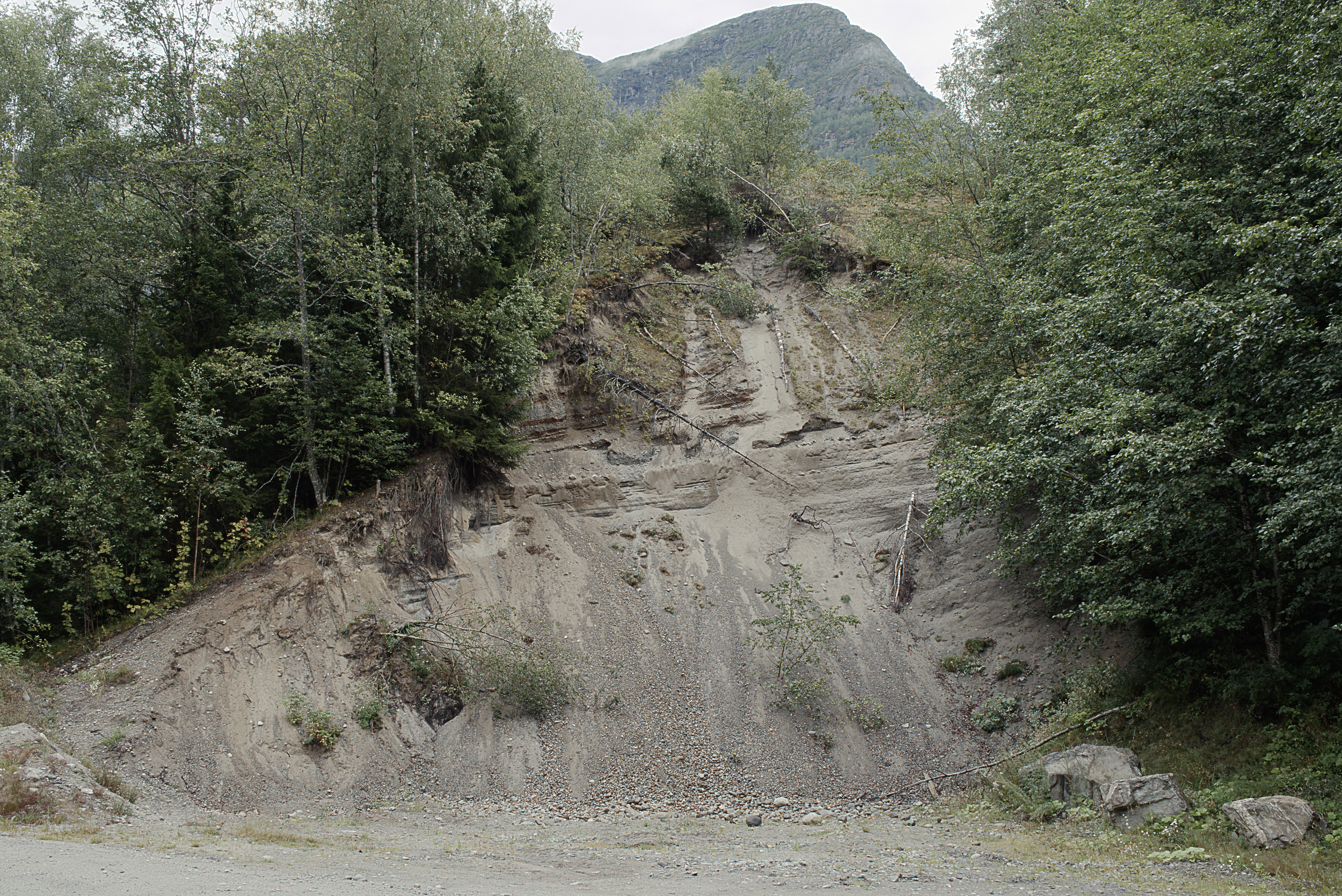 A cut into subsea glacial deposits from preboreal time. Sea level was then 100m above todays level.